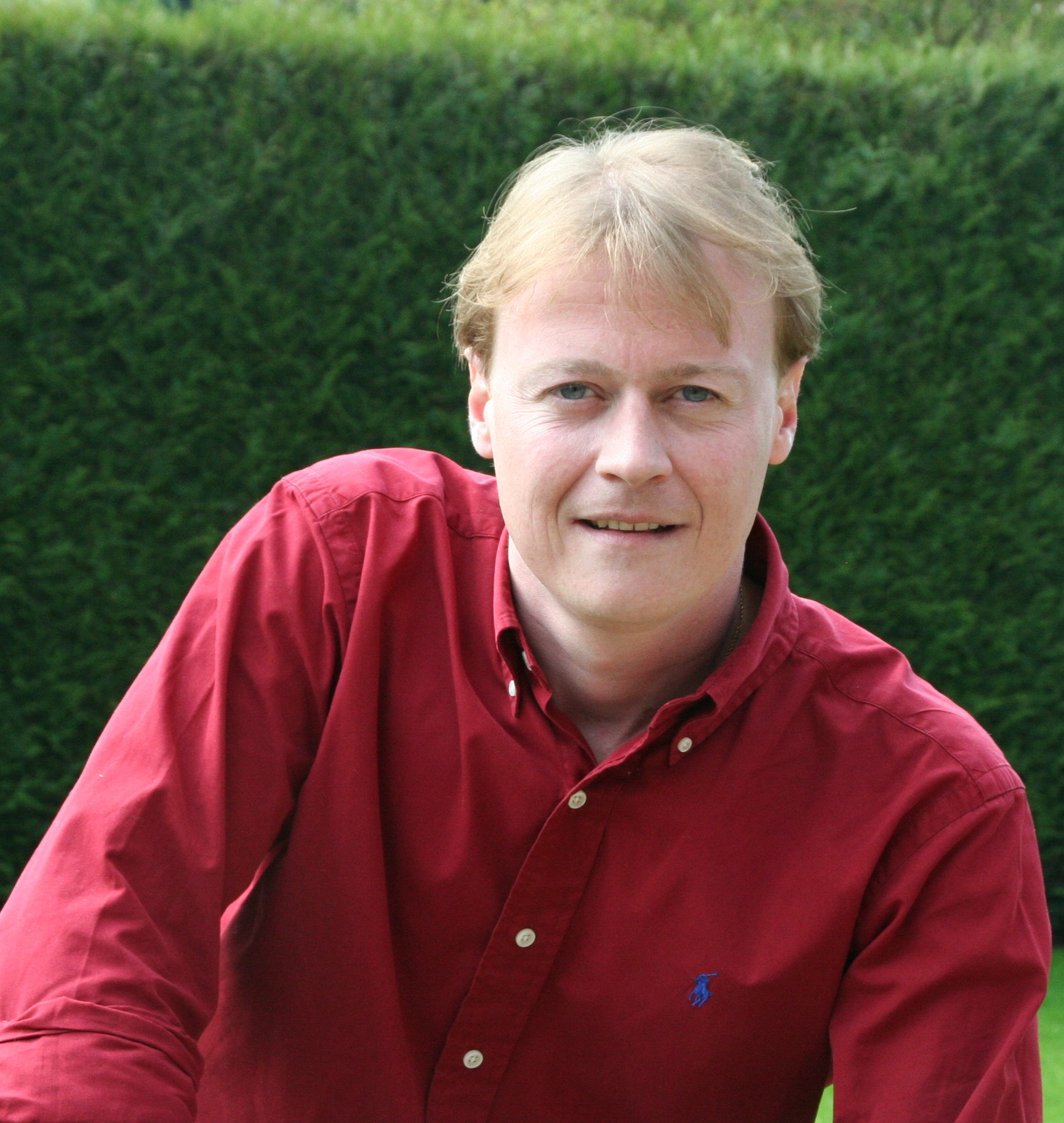 foto of Christophe Peeters